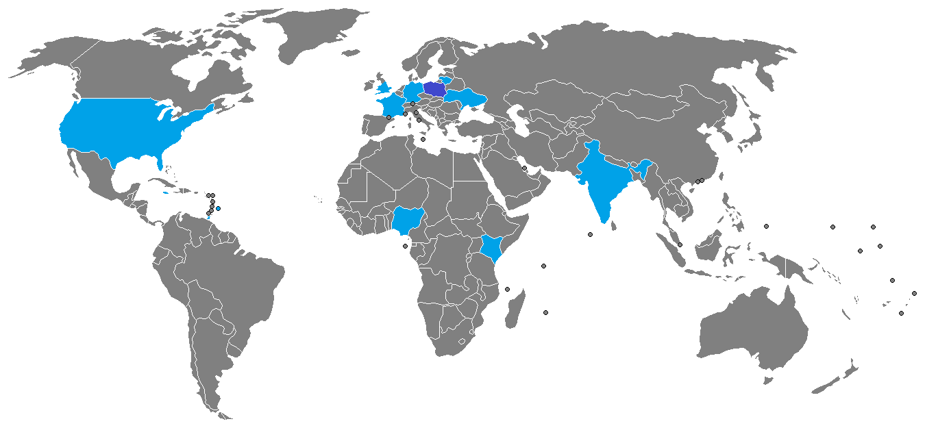 LHMM in the world. – more than 1000 – several hundred